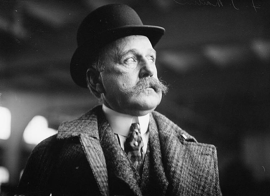 Frederick Townsend Martin Bain News Service,, publisher. F[rederick] Townsend Martin [before April 1914] 1 negative : glass ; 5 x 7 in. or smaller. Notes: Title from unverified data provided by the Bain News Service on the negatives or caption cards, with first name added by the source: Flickr Commons project, 2008. Forms part of: George Grantham Bain Collection (Library of Congress). Format: Glass negatives. Repository: Library of Congress, Prints and Photographs Division, Washington, D.C. 20540 USA, General information about the Bain Collection is available at Persistent URL: Call Number: LC-B2- 2463-15